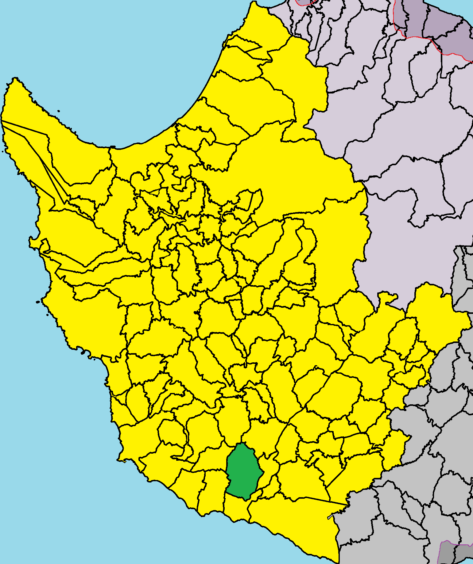 Anarita in Paphos District.